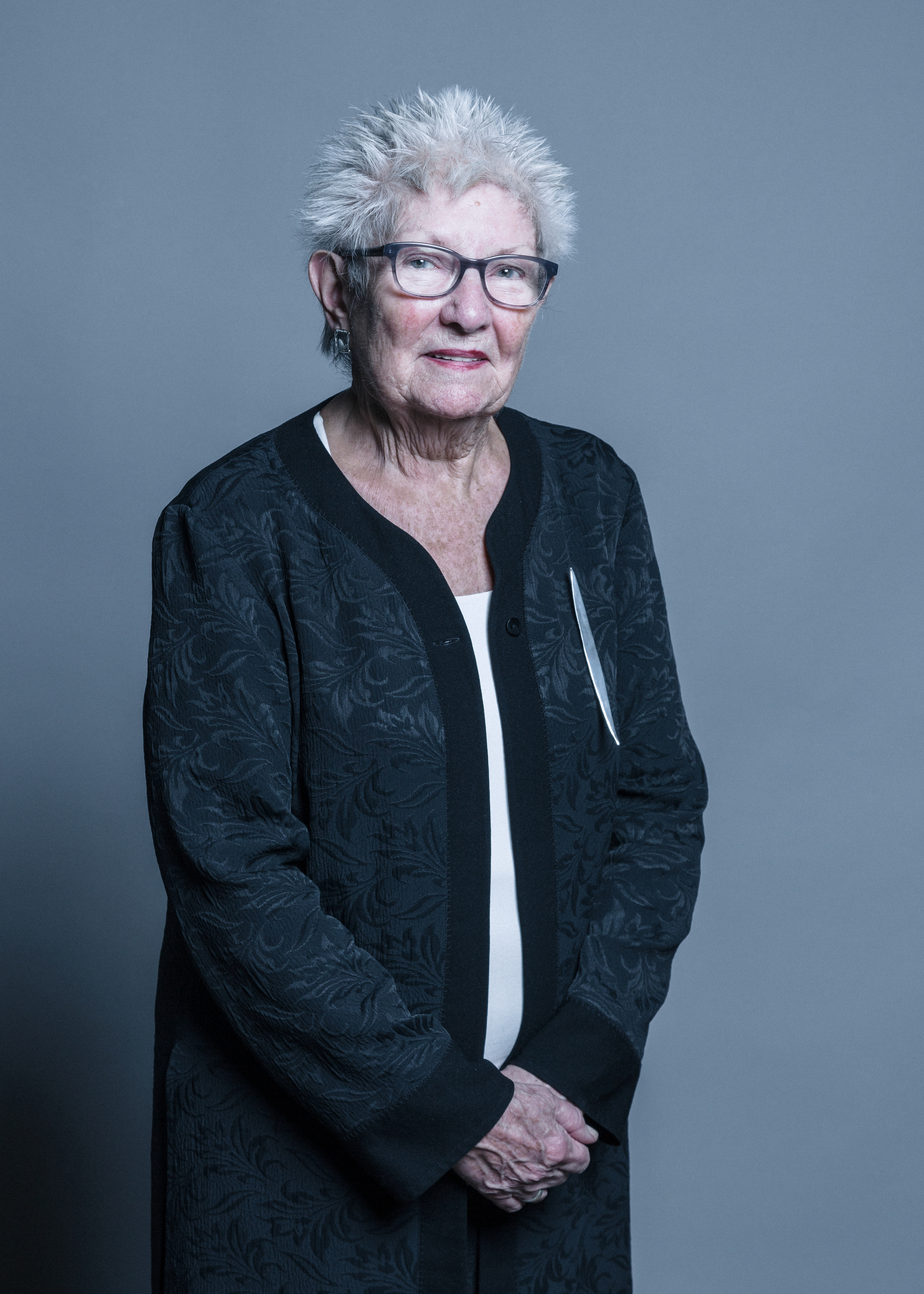 Official portrait of Baroness Prosser